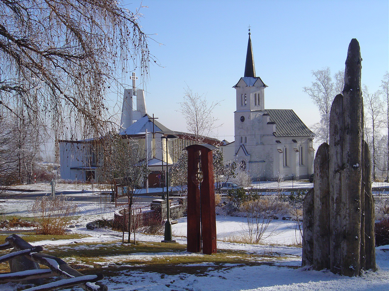 Catholic and evangelic churches in Nový Smokovec